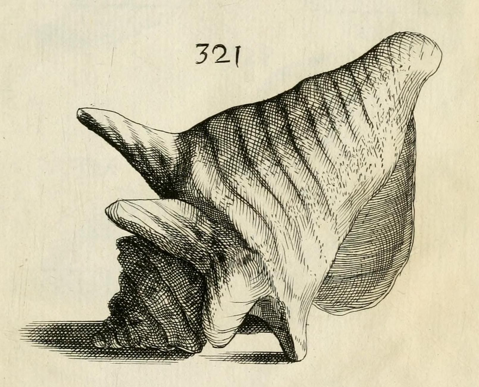 Plate 321 by Buonanni, a drawing of a shell of Strombus gigas. By designation of Clench & Abbott (1941) this figure was chosen as the figure-type of this species.